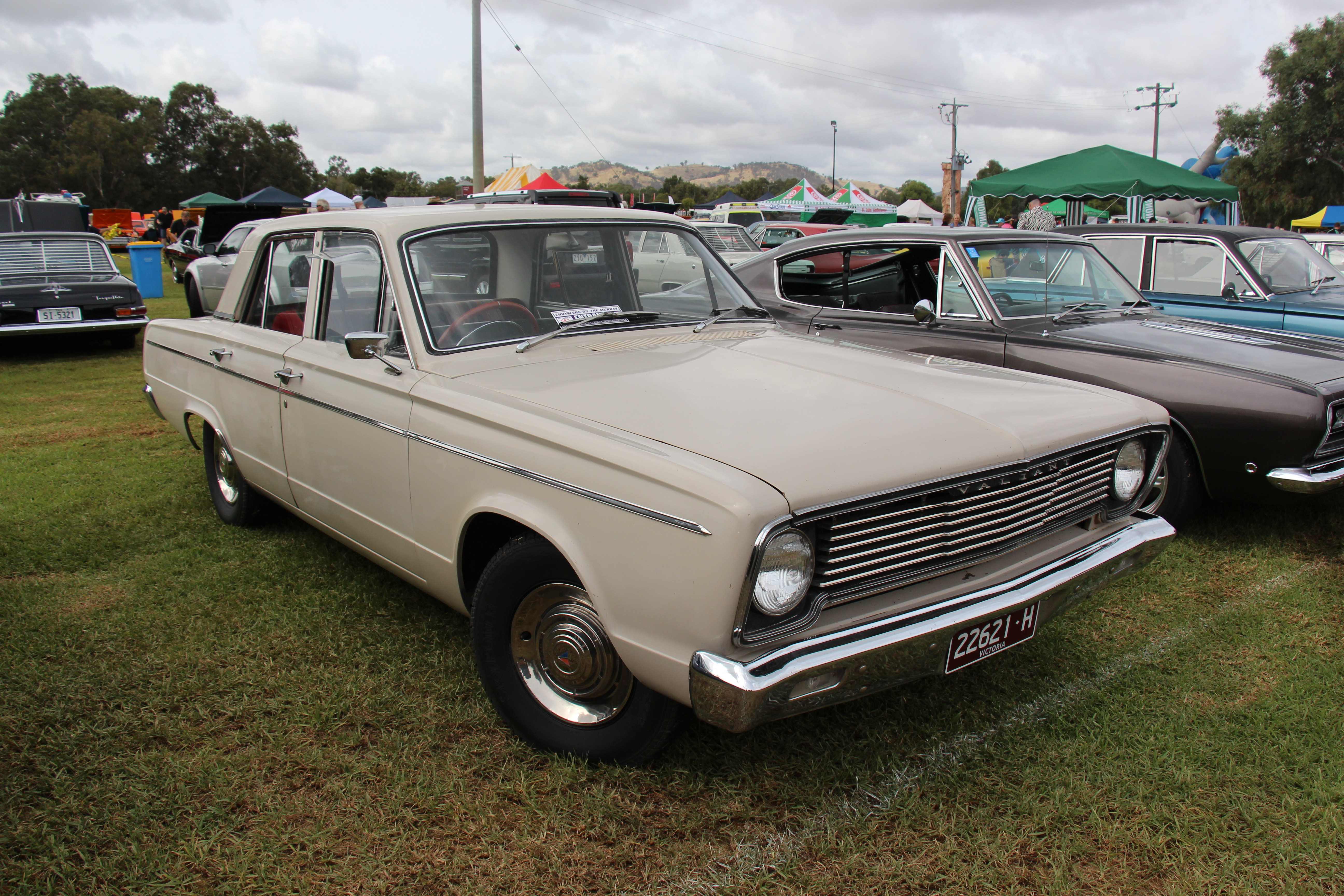 Chrysler VC Valiant Sedan